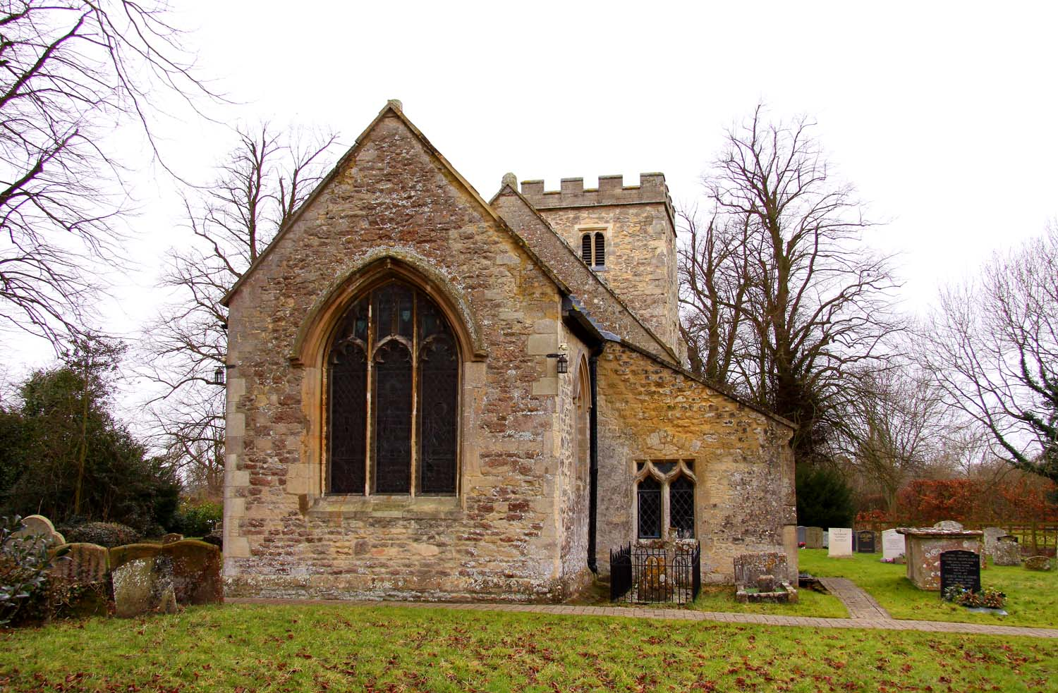 Church of England parish church of Saints Peter and Paul, Worminghall, Buckinghamshire: view from the east